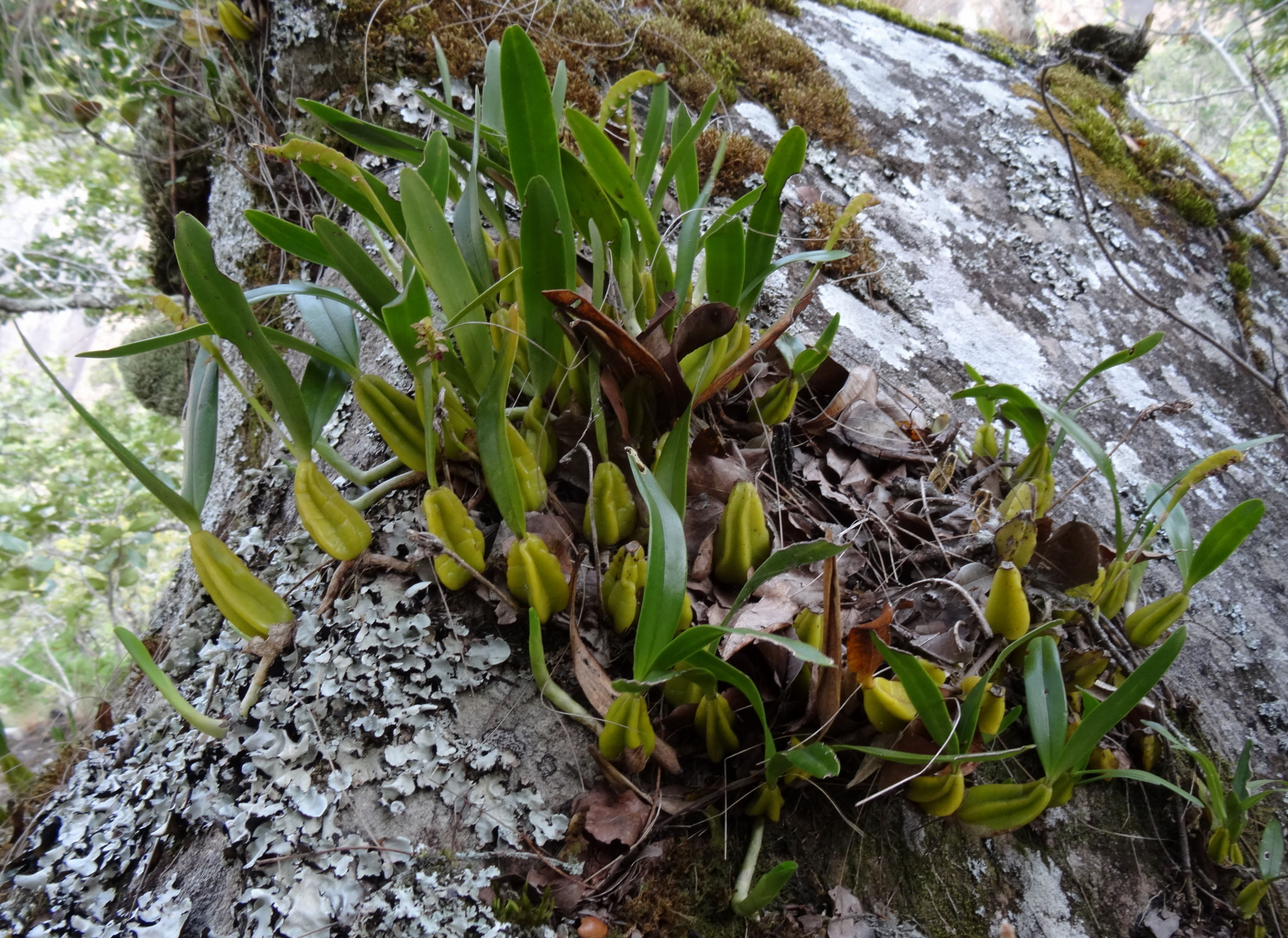 Bulbophyllum sandersonii on Mount Ribaue. Thanks, Bart.